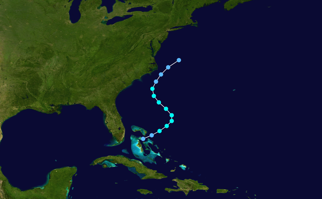 Track map of Tropical Storm Eight of the 1899 Atlantic hurricane season. The points show the location of the storm at 6-hour intervals. The colour represents the storm's maximum sustained wind speeds as classified in the Saffir–Simpson hurricane wind scale (see below), and the shape of the data points represent the nature of the storm, according to the legend below. Saffir–Simpson hurricane wind scale Tropical depression≤38 mph≤62 km/h Category 3111–129 mph178–208 km/h Tropical storm39–73 mph63–118 km/h Category 4130–156 mph209–251 km/h Category 174–95 mph119–153 km/h Category 5≥157 mph≥252 km/h Category 296–110 mph154–177 km/h Unknown Storm typeTropical cycloneSubtropical cycloneExtratropical cyclone / Remnant low / Tropical disturbance